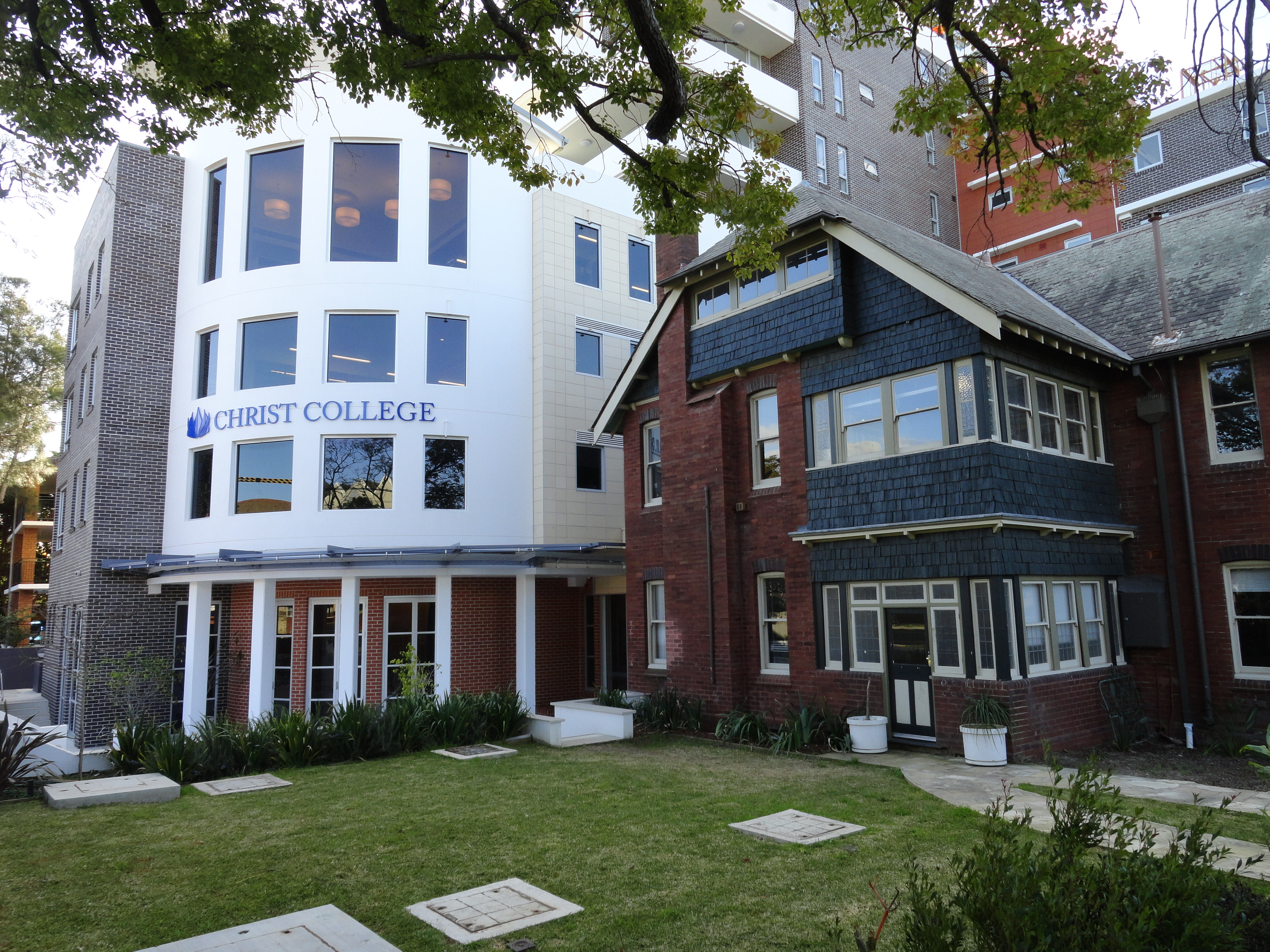 Christ College in Burwood, Sydney